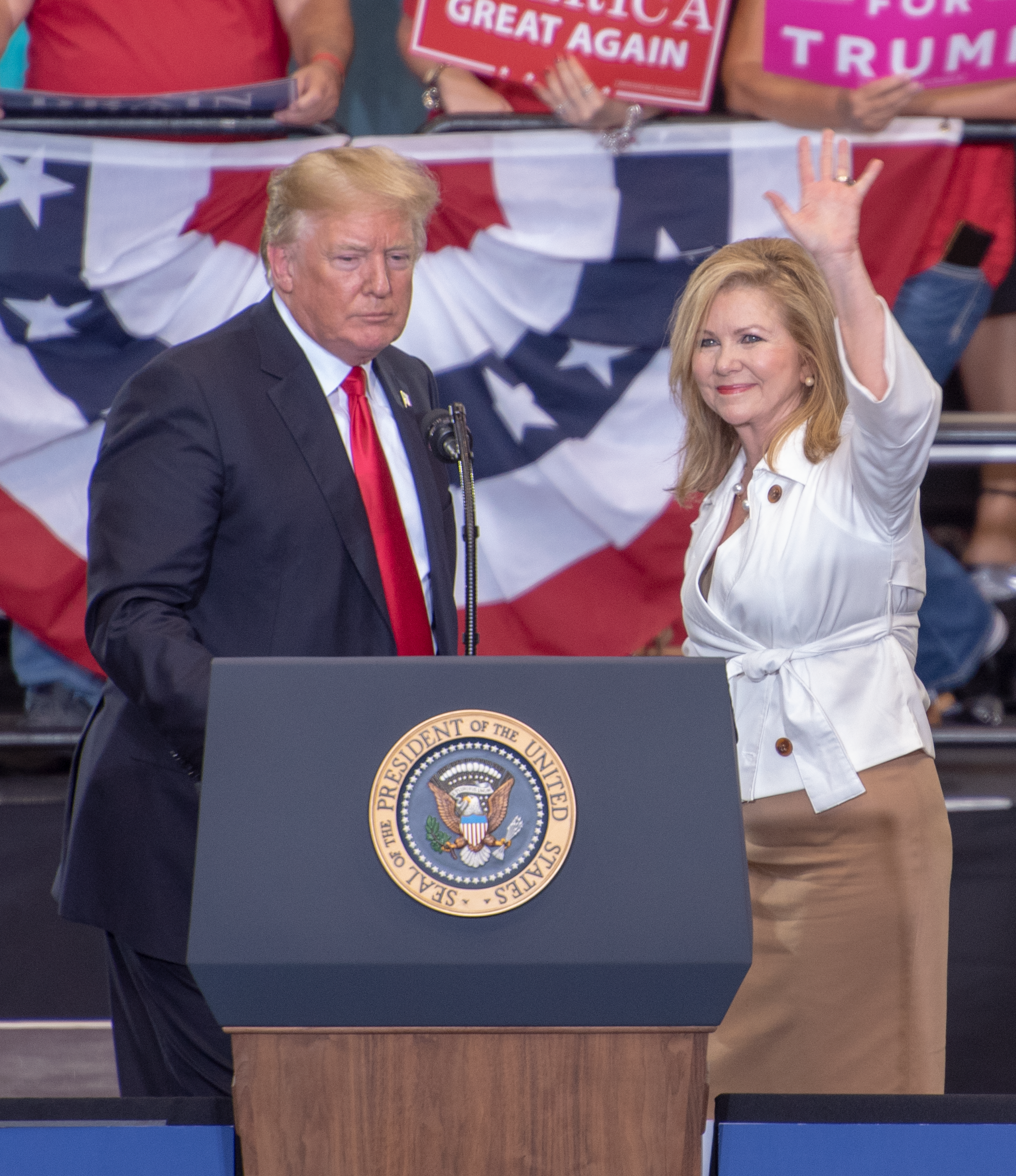 Marsha Blackburn and Donald Trump waving at Nashville Rally